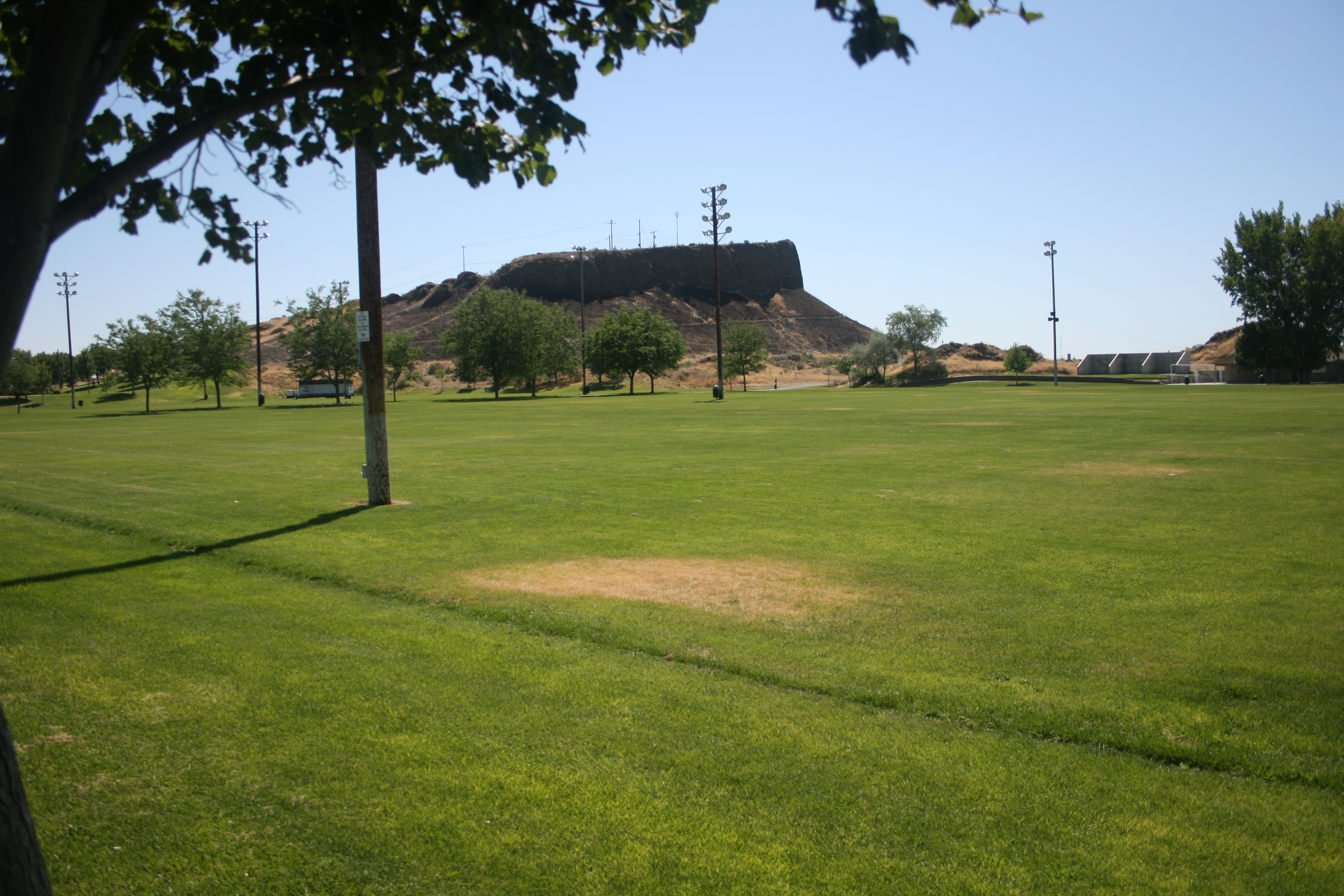 Hermiston is a city in Umatilla County, Oregon, United States. Photo shows Butte Park.